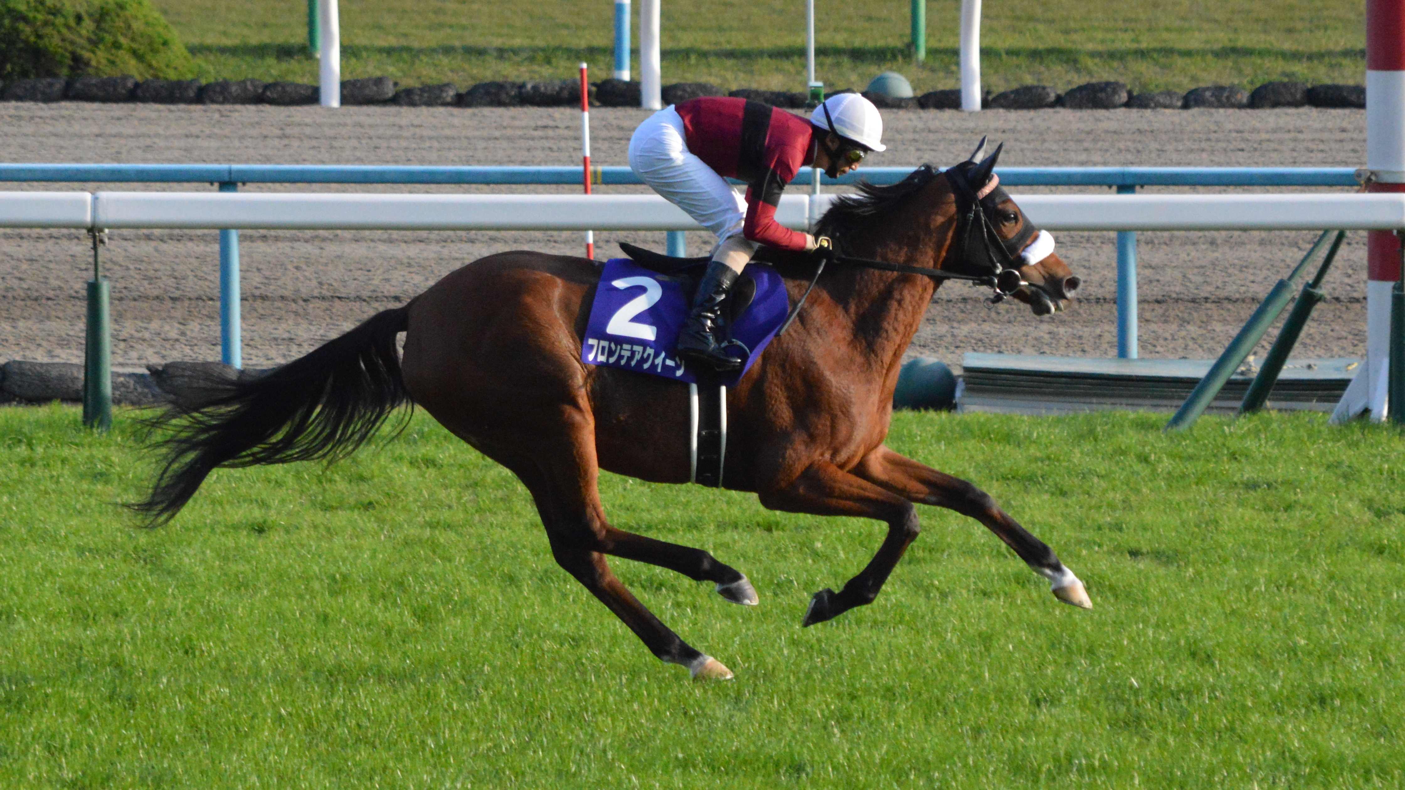 Japanese race horse Frontier Queen at Kyoto racecourse. Kyoto (JPN) 11 Nov 2018Queen Elizabeth II Cup (Grade 1) (3yo+ Fillies & Mares) (Turf) 1m3f Firm RankHorse NameOddsAgeWgtJockeyTrainer1stLys Gracieux (JPN)37/10F48-11Joao Moreira Yoshito Yahagi11thFrontier Queen (JPN)248/10M58-11Masayoshi EbinaSakae KuniedaOthers are omitted. (17 horses entered in a race.)